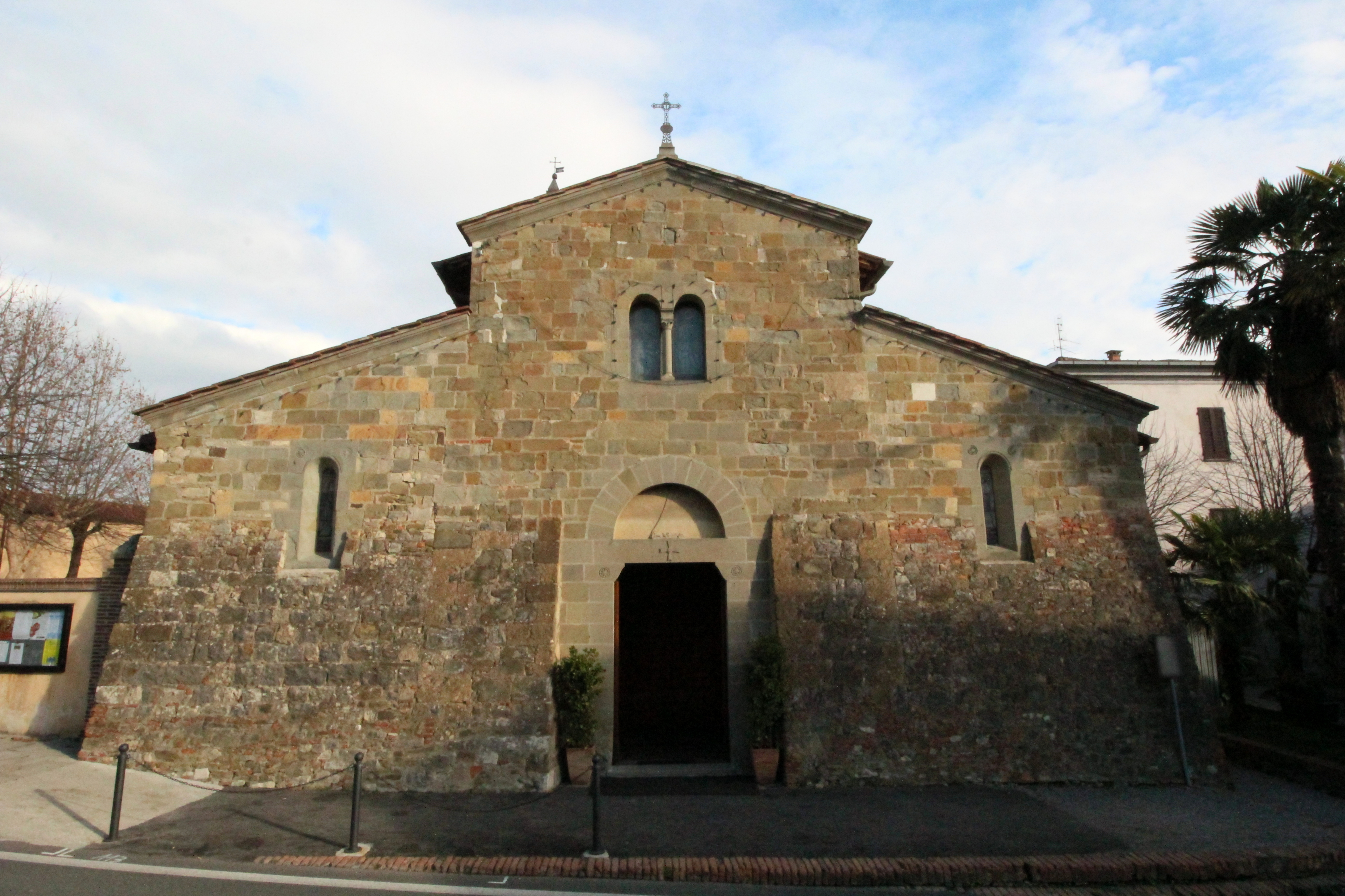 Church San Pietro ad Mensula, Pieve di Sinalunga, Sinalunga, Valdichiana, Province of Siena, Tuscany, Italy